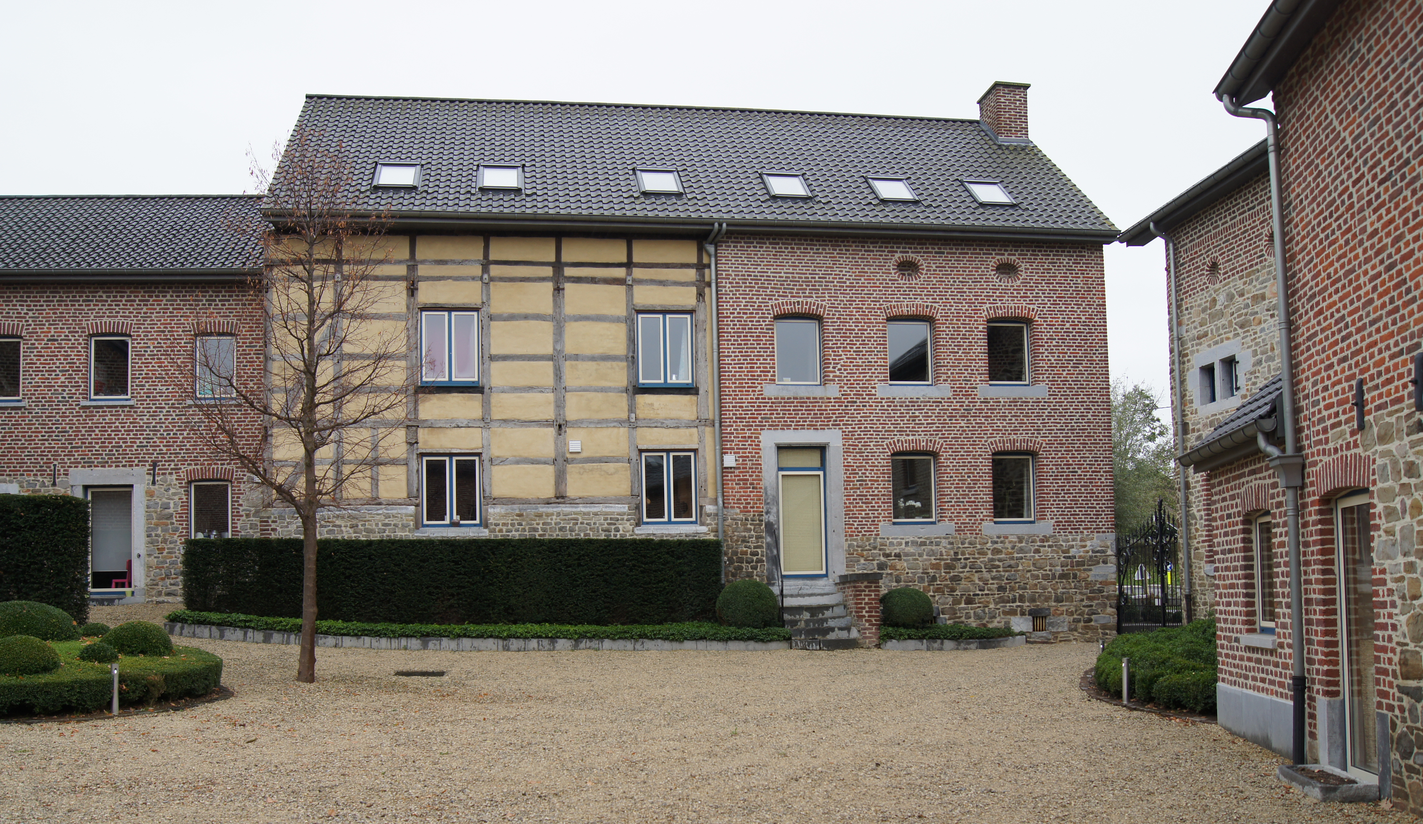 Blegny (Trembleur), Belgium: New houses in old Court Yard